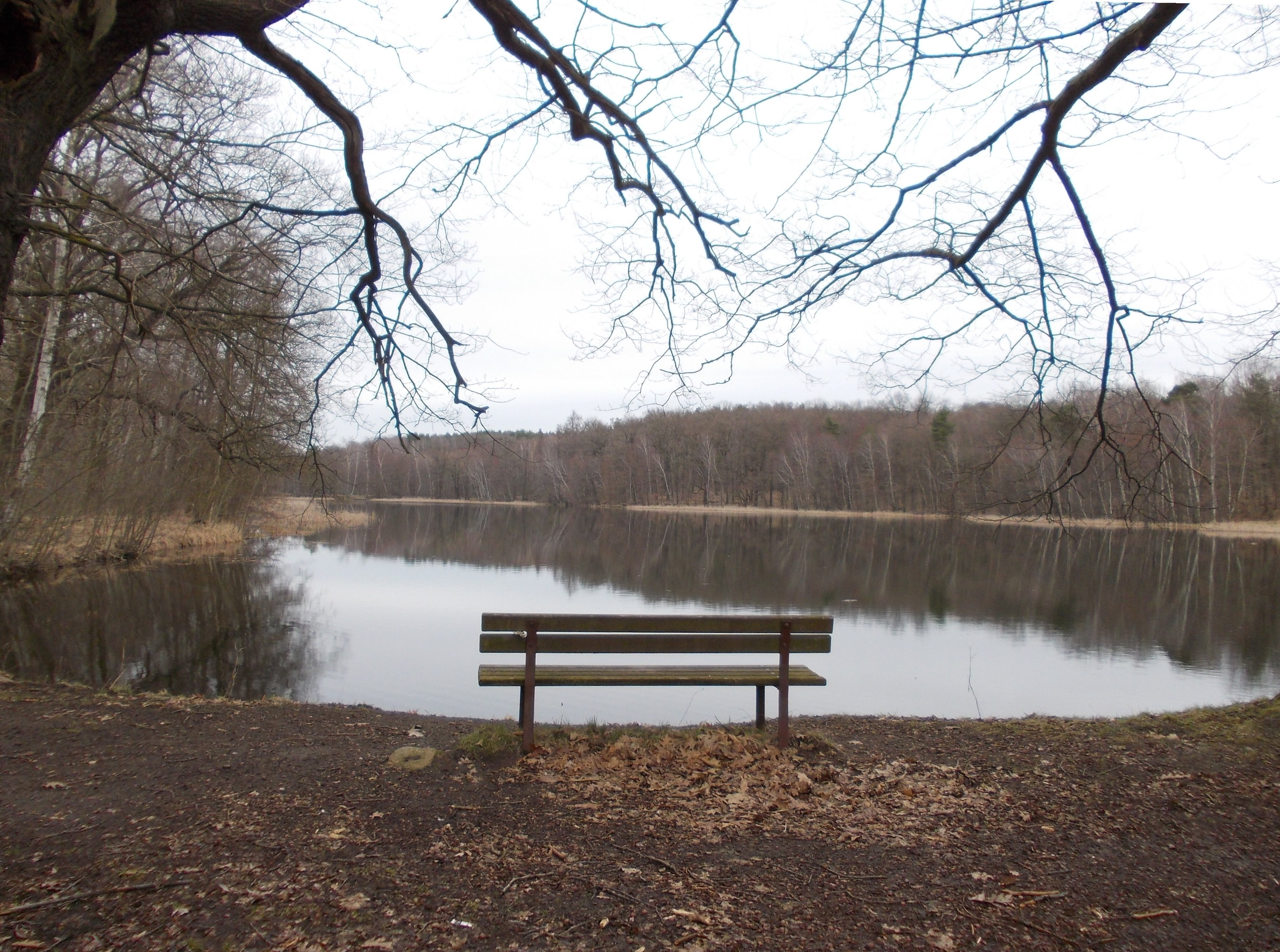 Mill pond near Dahlen (Nordsachsen district, Saxony)